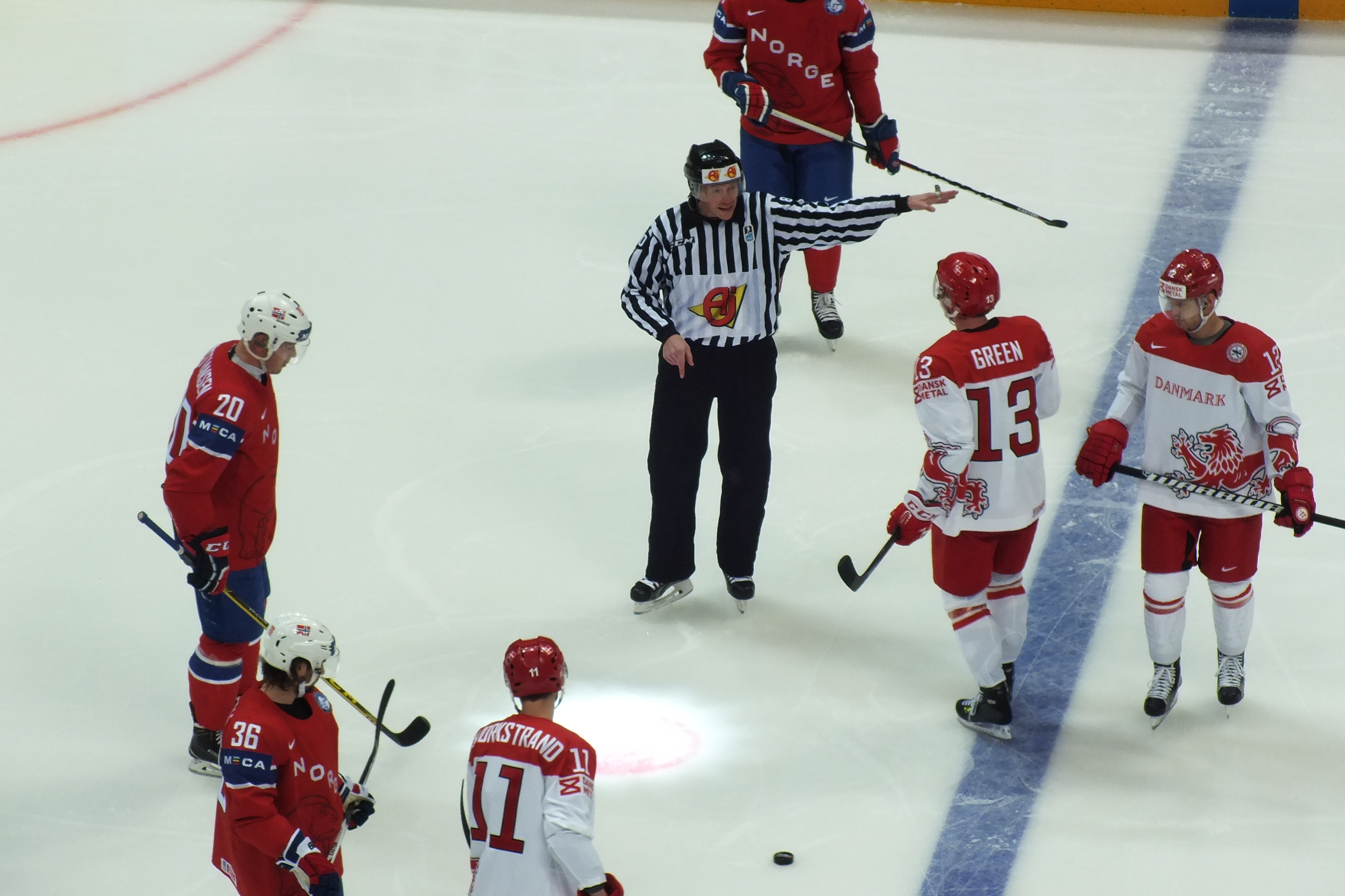 2016 IIHF World Championship - Norway vs. Denmark (07.05.16).